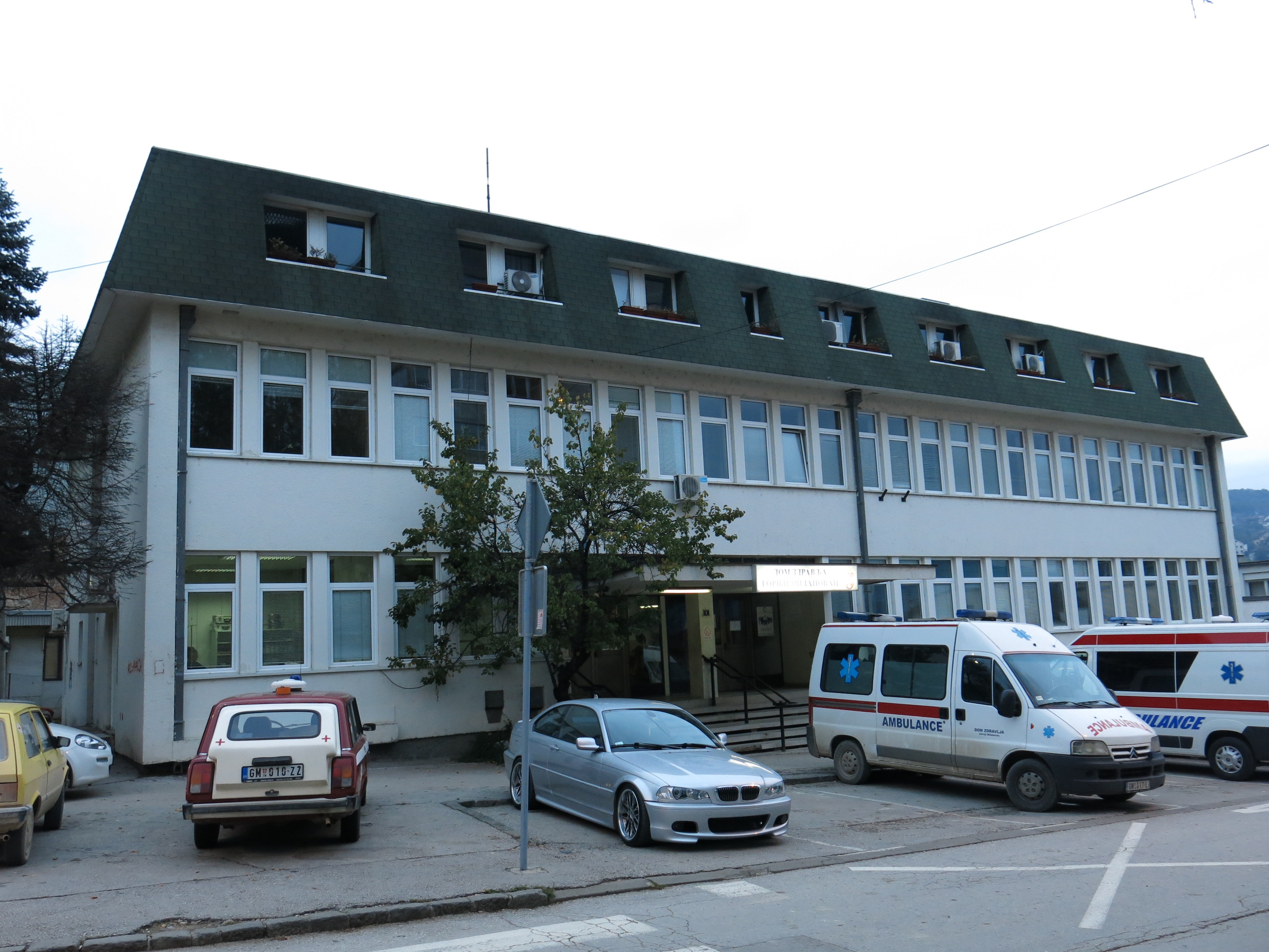 Gornji Milanovac, Primary health care facility